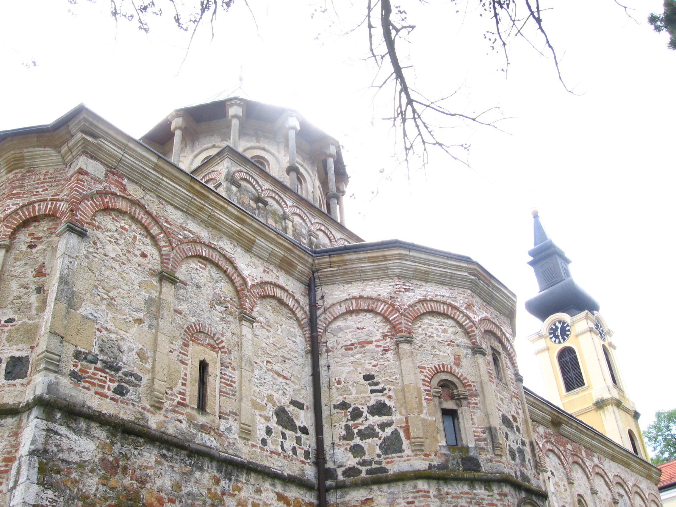 Church in Novo Hopovo Monastery